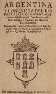 Book cover of the poem "La Argentina" ("The Argentina") by Martín del Barco Centenera. 1602